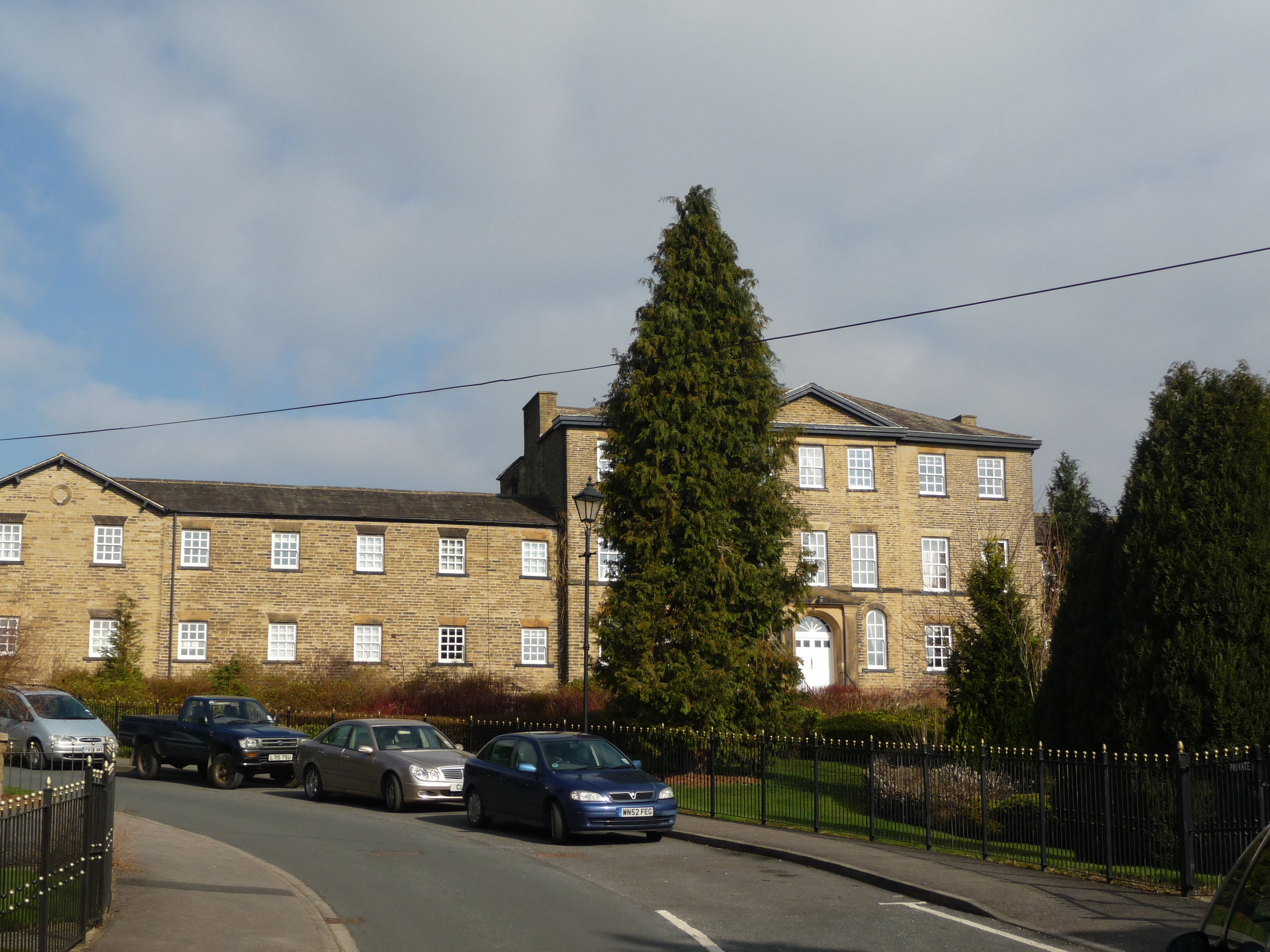 Gainsborough Court